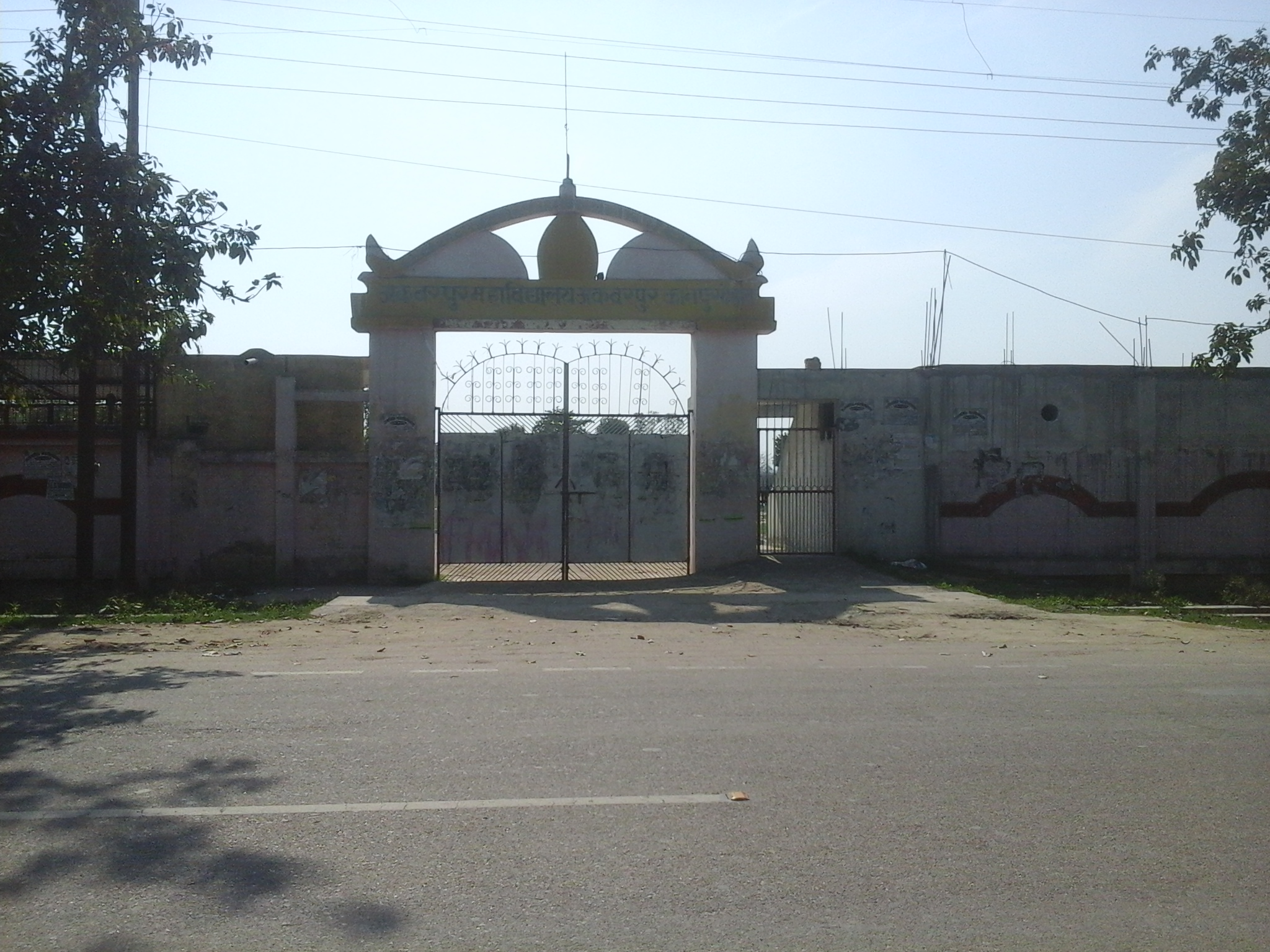 Front view of Akbarpur Degree College Akbarpur ,Kanpur Dehat ,Uttar Pradesh ,India.